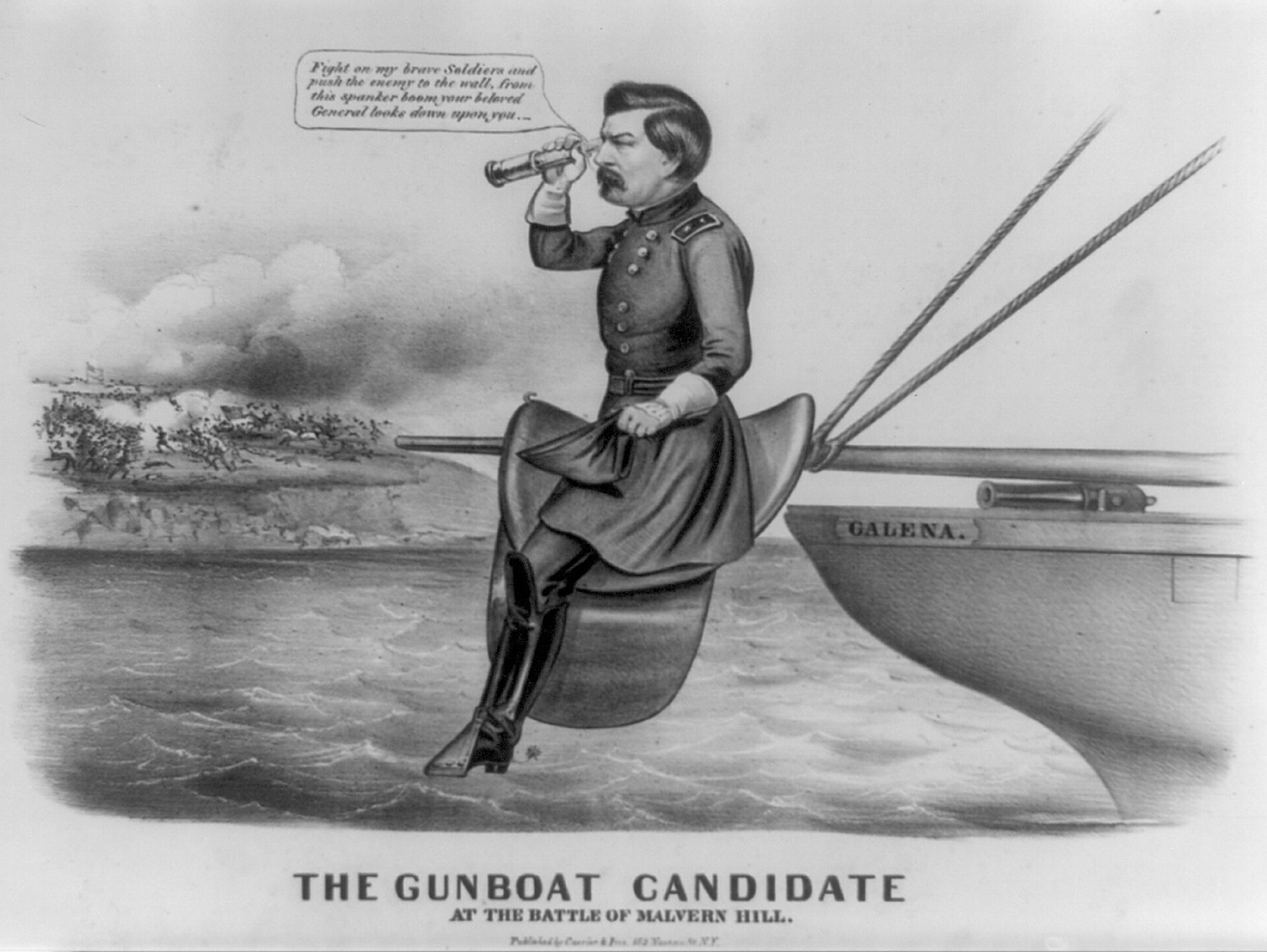 TITLE: The gunboat candidate at the Battle of Malvern HillCALL NUMBER: Stern Collection, v. 4, no. 9 c-Rare Bk CollREPRODUCTION NUMBER: LC-USZ62-92038 (b&w film copy neg.)SUMMARY: Democratic presidential candidate George Brinton McClellan is lampooned as an incompetent military leader. He sits in a saddle mounted on the boom of the Union ironclad vessel "Galena." The print recalls two prominent failures in McClellan's tenure as commander of the Army of the Potomac, which haunted him during the 1864 campaign. The "Galena," a Union ironclad leading a flotilla of Union gunboats against Richmond, was driven back and badly damaged by Confederate batteries just miles from the capital in May 1862. McClellan was criticized for refusing to bring nearby land troops to the navy's aid. Shortly thereafter McClellan's peninsular campaign toward Richmond came to a disastrous conclusion with the Battle of Malvern Hill, shown here raging in the background. McClellan's troops retreated to the protection of naval guns, effectively ending the Union threat to Richmond. The artist shows McClellan viewing the battle through a telescope from his safe perch. He calls to the troops, "Fight on my brave Soldiers and push the enemy to the wall, from this spanker boom your beloved General looks down upon you."MEDIUM: 1 print : lithograph on wove paper ; 26 x 34 cm (image)